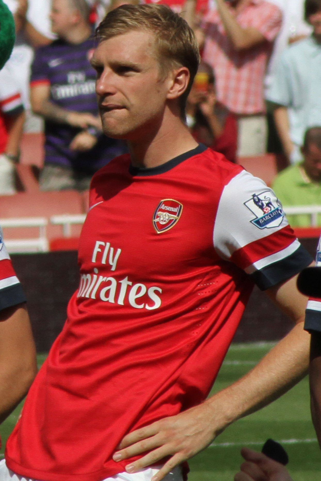 Gervinho, Theo Walcott, Carl Jenkinson, Per Mertesacker, Abou Diaby and Gunnersaurus Rex line up before the opening match of the 2012–13 Premier League season.